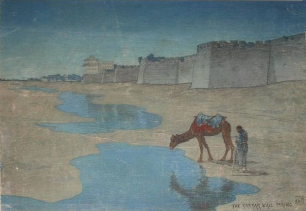 Tartar Wall, Peking